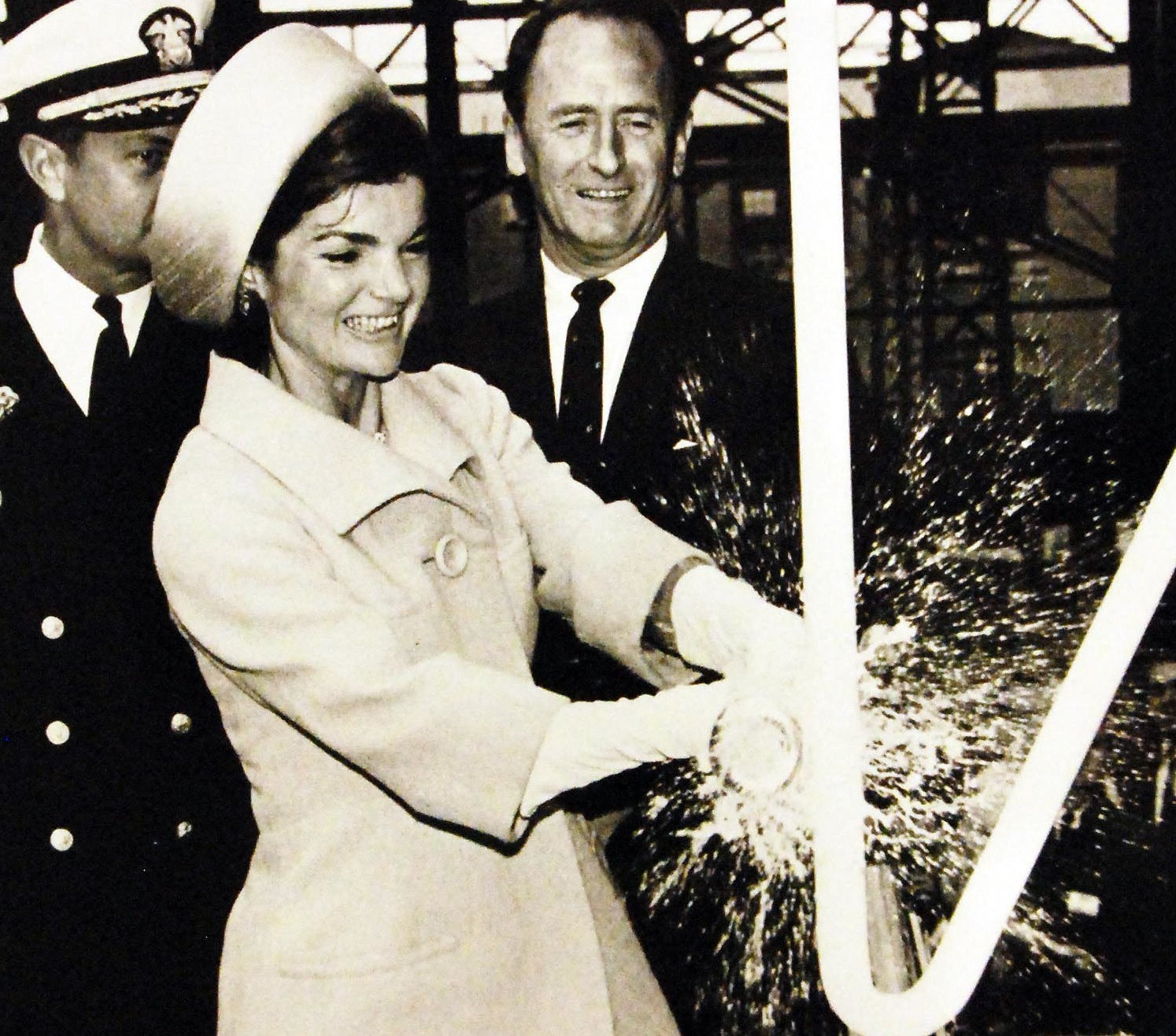 Lot-9509-1: USS Lafaytte (SSBN 616), christening of the submarine by First Lady Jacqueline Kennedy on May 8, 1962 at Electric Boat, General Dynamics, in Groton, Connecticut. U.S. Navy Photograph. Courtesy of the Library of Congress. (2016/06/17).